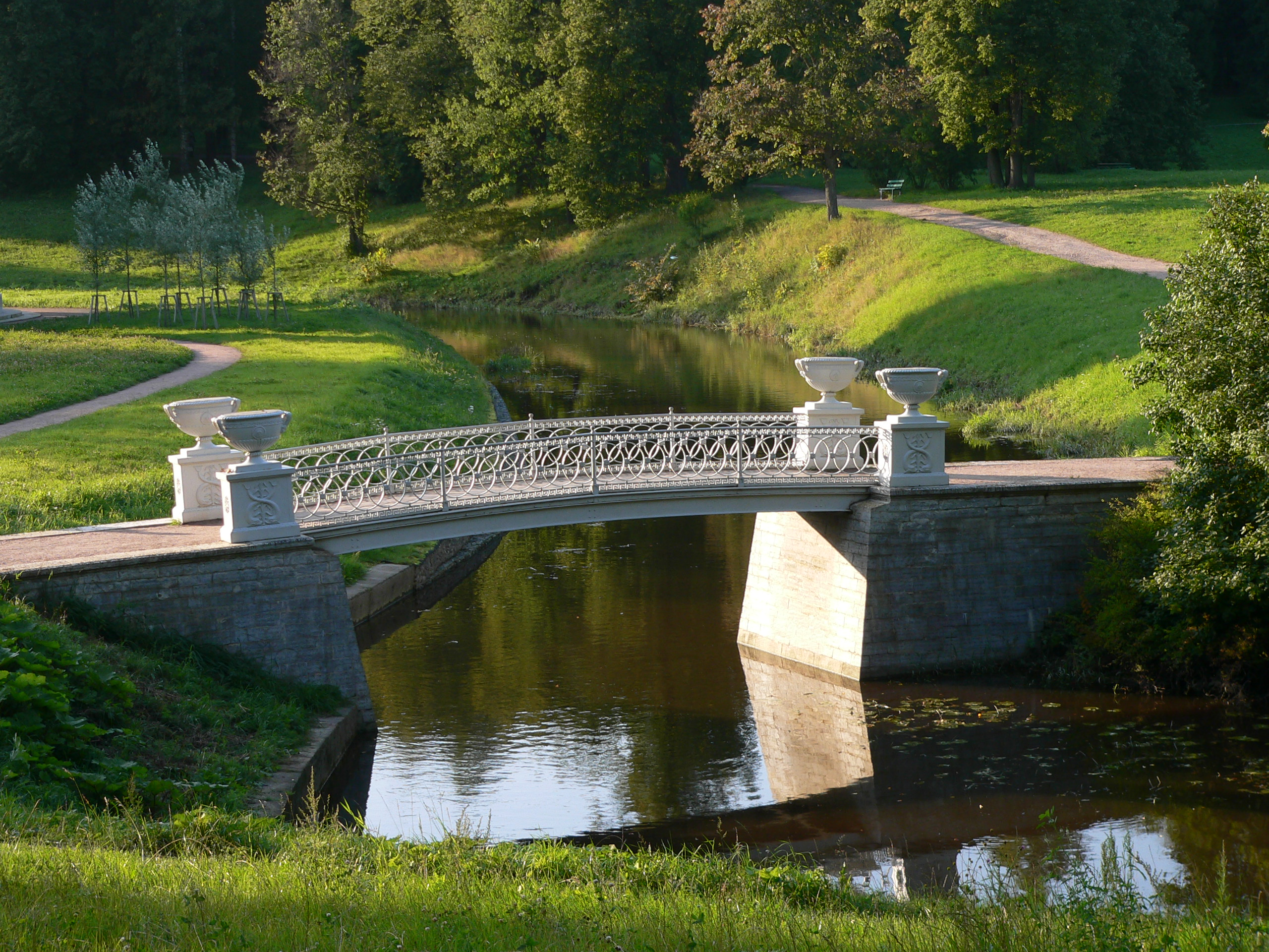 Cast-iron Bridge over Slavianka River in Pavlovsk park, Saint Petersburg, Russia